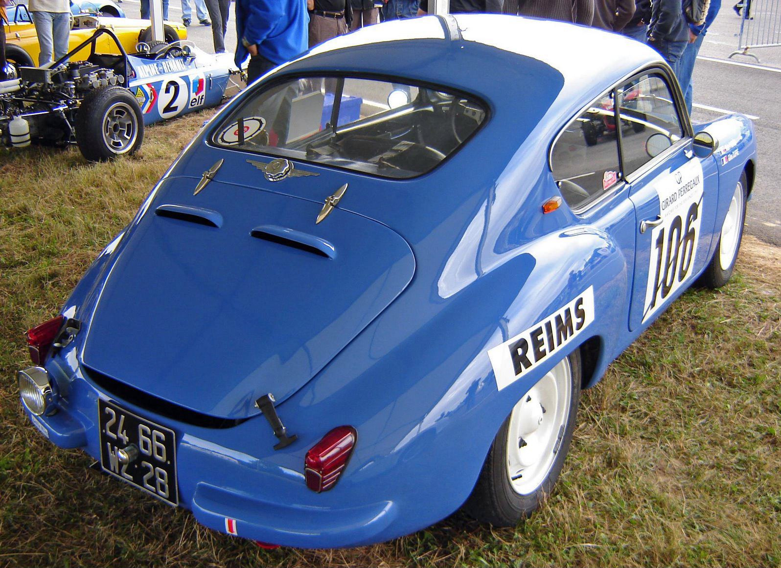 Rear view of 1957 Alpine A106 Coach "Mille Miles", chassis #131, at the Autodrome de Linas-Montlhéry, 2009.